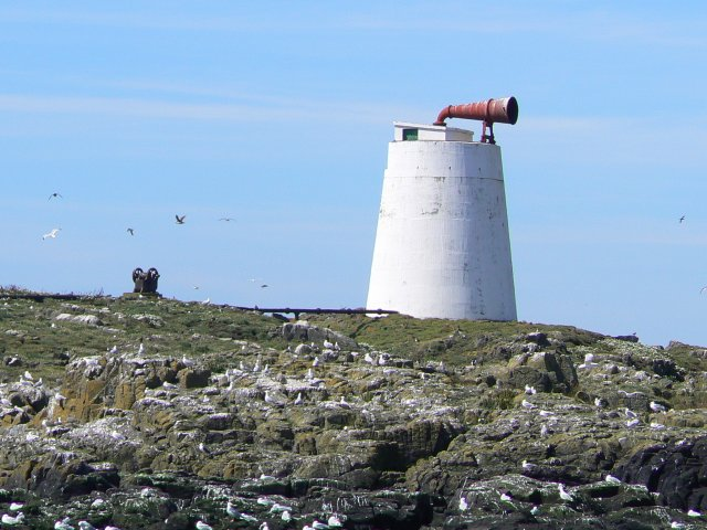 North Horn